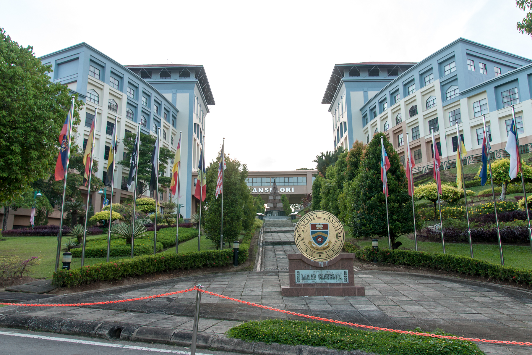 Universiti Malaysia Sabah (UMS), Office of the Chancellor